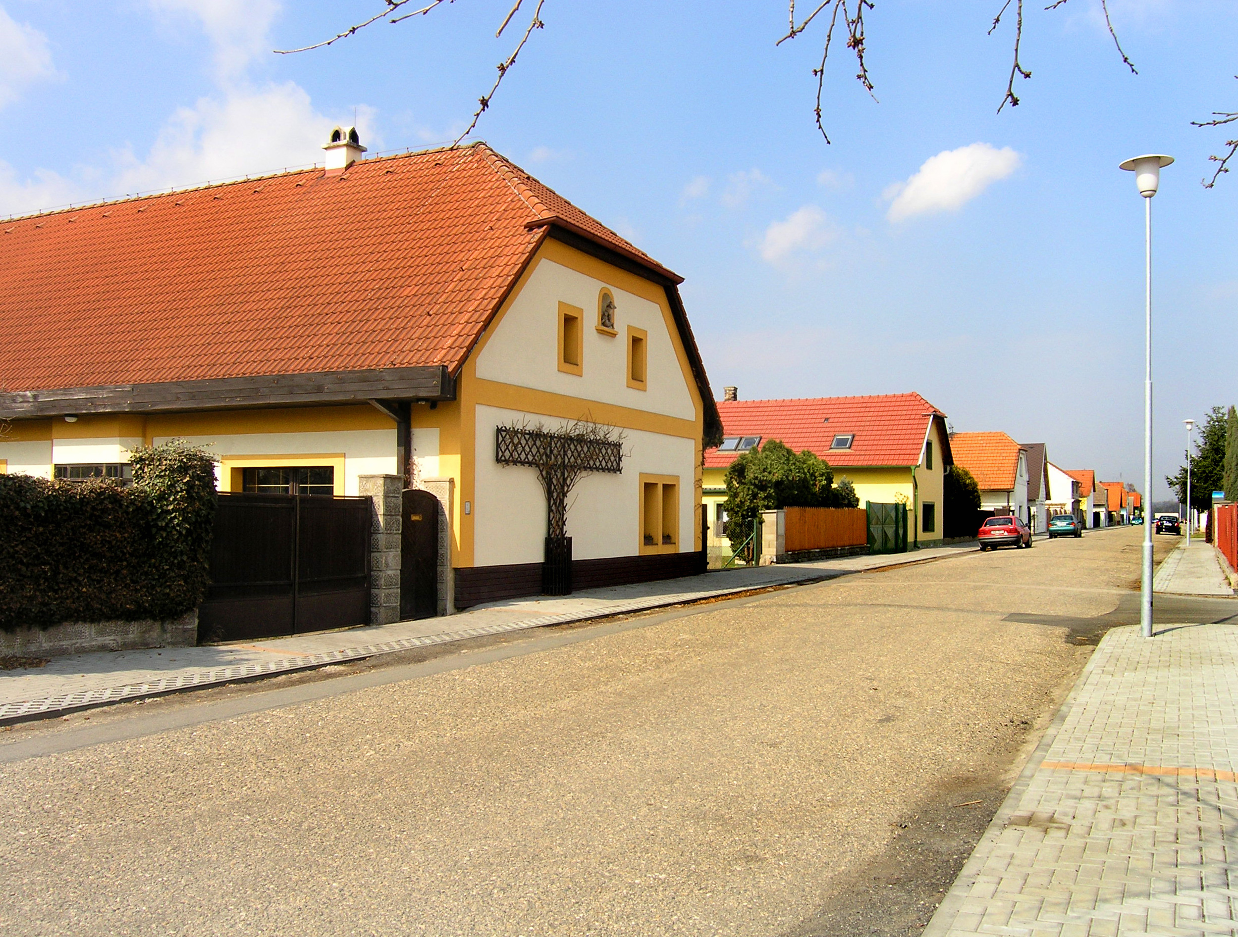 West part of Borek village, Czech Republic